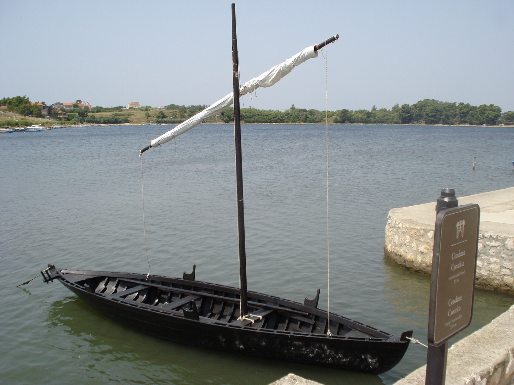 Condura Croatica - One of the oldest type of Croatian boats (10th-11th century), rebuilt in Nin, Croatia.